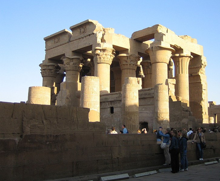 Overview of the Kom Ombo temple in Egypt, on the Nile. Photo taken in December 2004 by Ian Sewell.